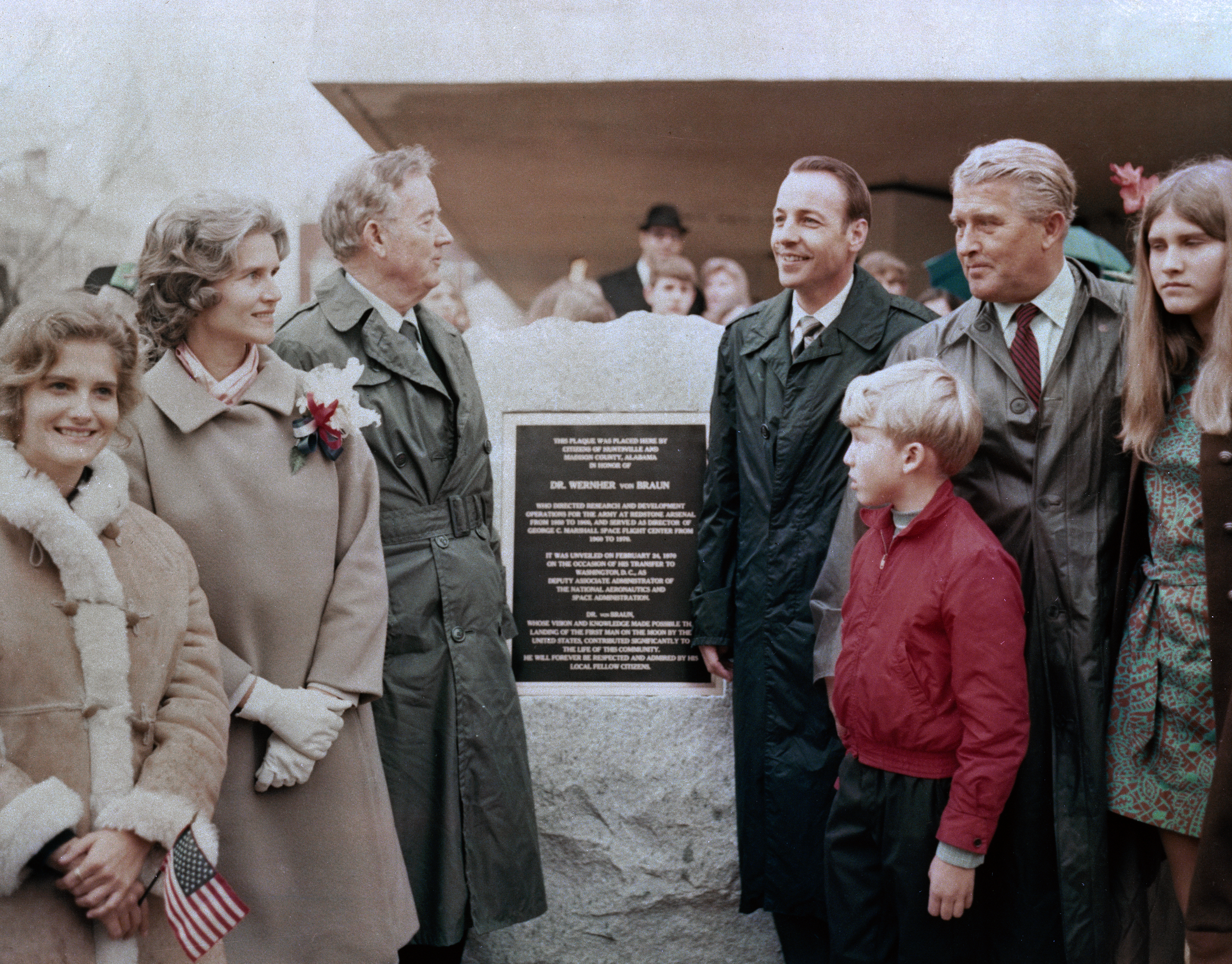 In February 1970, MSFC Director Dr. Wernher von Braun was named NASA Deputy Associate Administrator for Planning and transferred to the Agency's Headquarters in Washington D.C. Prior to his departure, residents of Huntsville, Alabama, along with state local dignitaries, honored his years of service to the Army and NASA with a series of events. One included unveiling a plaque in von Braun's honor. Pictured with Dr. von Braun are (left to right), his daughter Iris, wife Maria, U.S. Senator John Sparkman and Alabama Governor Albert Brewer, Dr. von Braun, son Peter, and daughter Margrit.